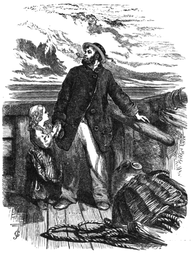 Illustration for "The Wreck of the Hesperus" by American poet Henry Wadsworth Longfellow. From Illustrated Poems and Songs for Young People, edited by Mrs. [L.D.] Sale Barker. Published 1885.